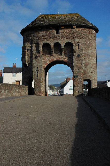 Gatehouse on Monnow Bridge, Monmouth This medieval gatehouse on the Monnow Bridge is the only example of a fortified bridge in Britain. The bridge used to carry traffic but now is pedestrianised